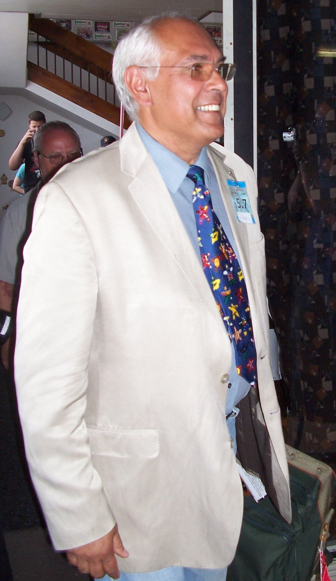 Trevor Alfred Charles Jones, South African orchestral film score composer.